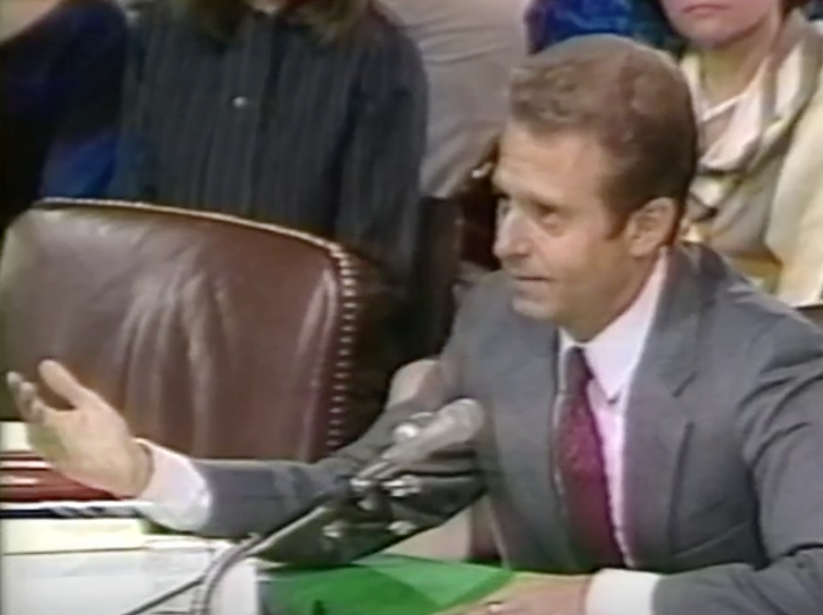 Tribe testifying to U.S. Senate Judiciary Committee in 1987